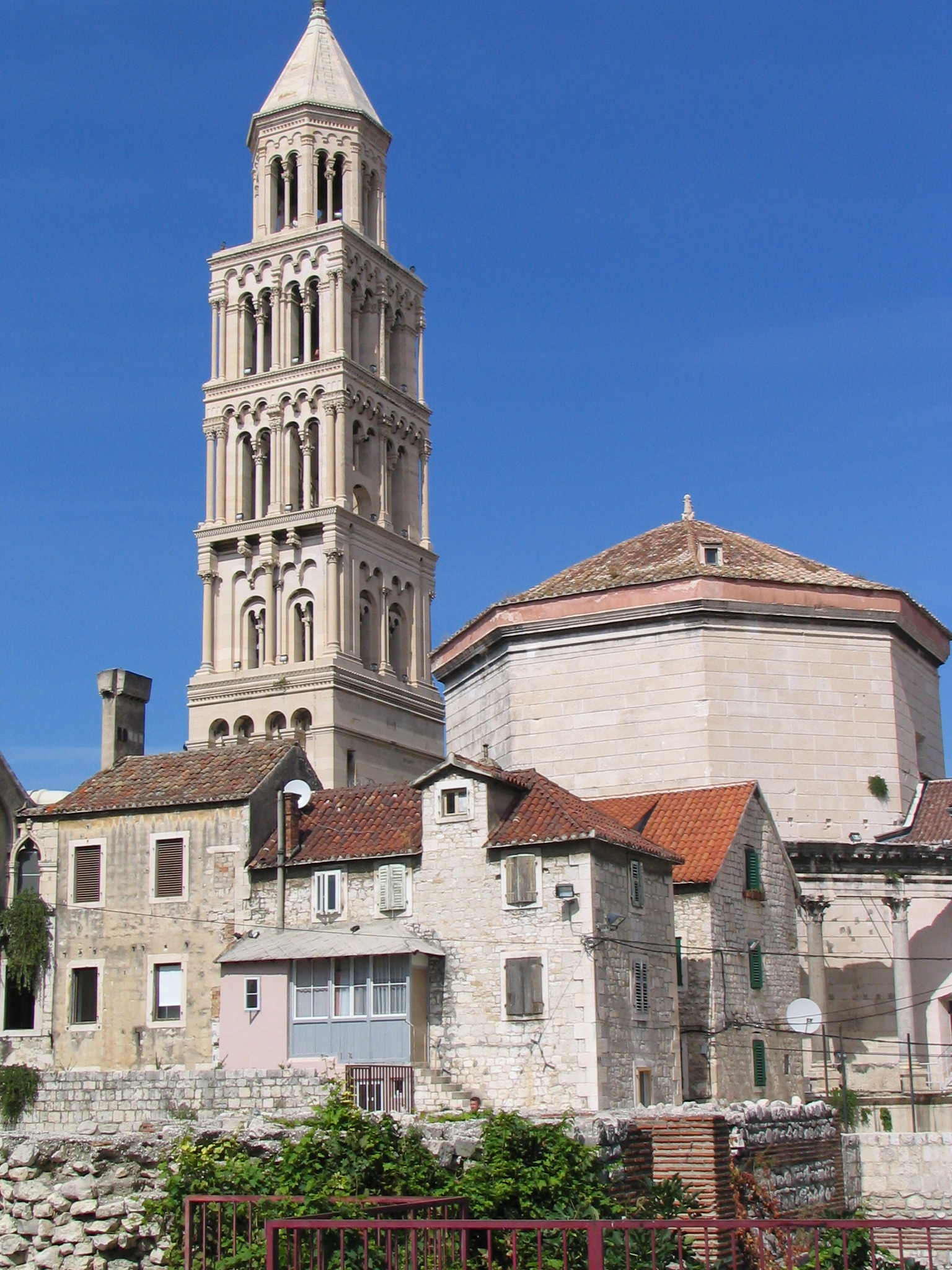 Cathedral of Split, Croatia.